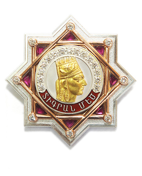 The Order «Tigran the Great» — State Awards in the Republic of Armenia